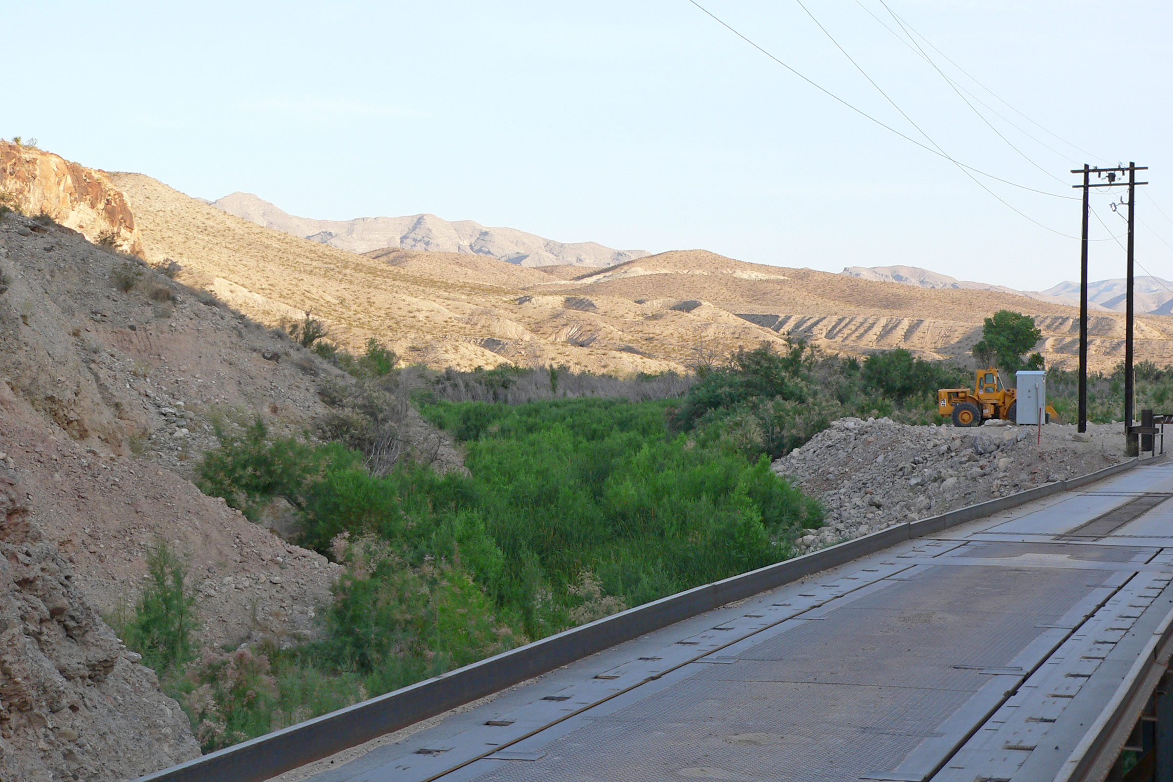 Meadow Valley Wash at the railroad gate, southern Nevada (LVMC outing)